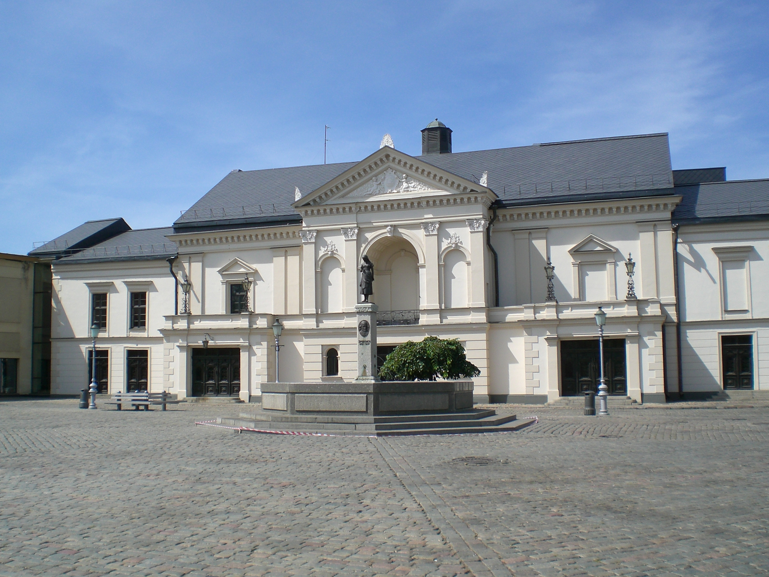 Theatre square (teatro aikštė) in Klaipėda, Lithuania - sculpture "Ännchen von Tharau"